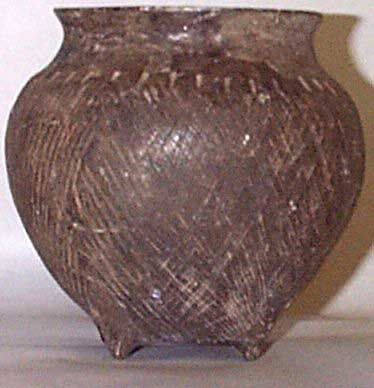 Vessel ca. 1-350 AD This Hopewellian ceramic vessel was restored from fragments found within the Mound City Group. The vessel may have been imported from the southern Appalachian or Gulf Coastal Plain area. Hopewell Culture National Historic Park HOCU 4118